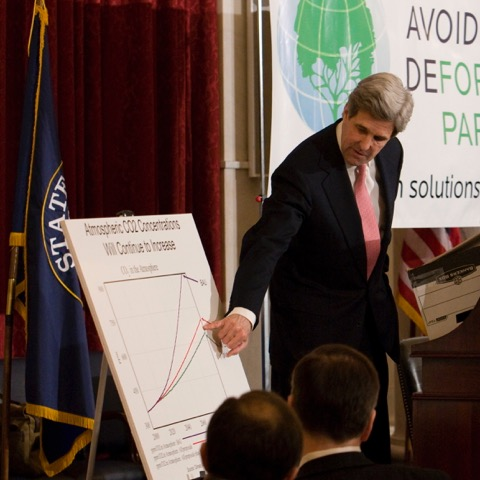 Avoided Deforestation Partners Senate Briefing